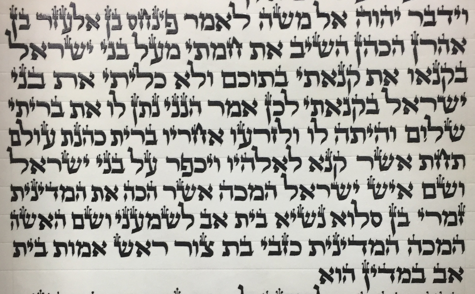 Snapshot of torah scroll